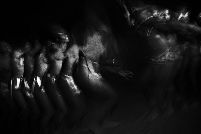 Venda maidens do the domba dance, near Thoyandou, Limpopo, 2005.